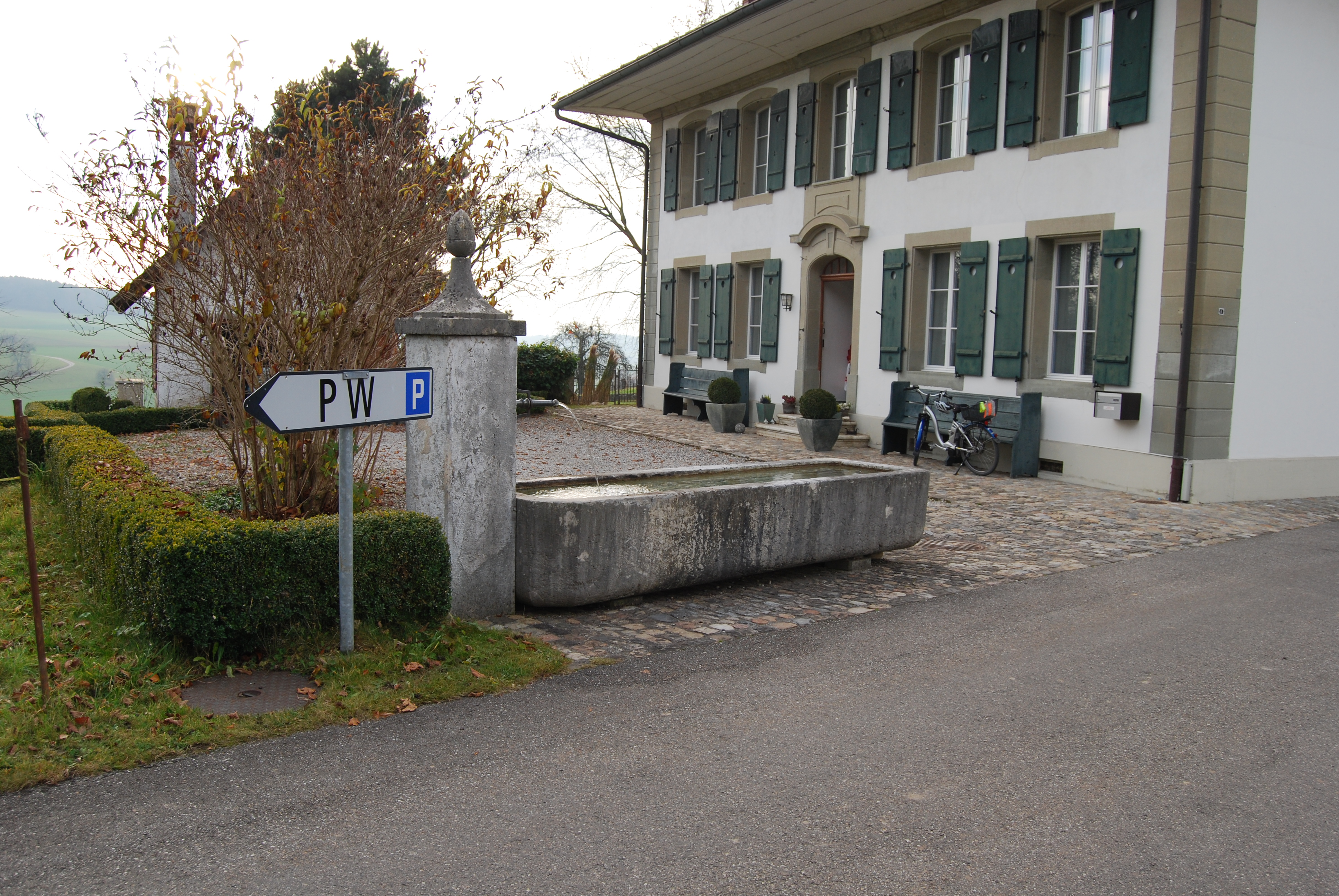 Seeberg, canton of Bern, SwitzerlandEsperanto: Seeberg, Kantono Berno, Svislando